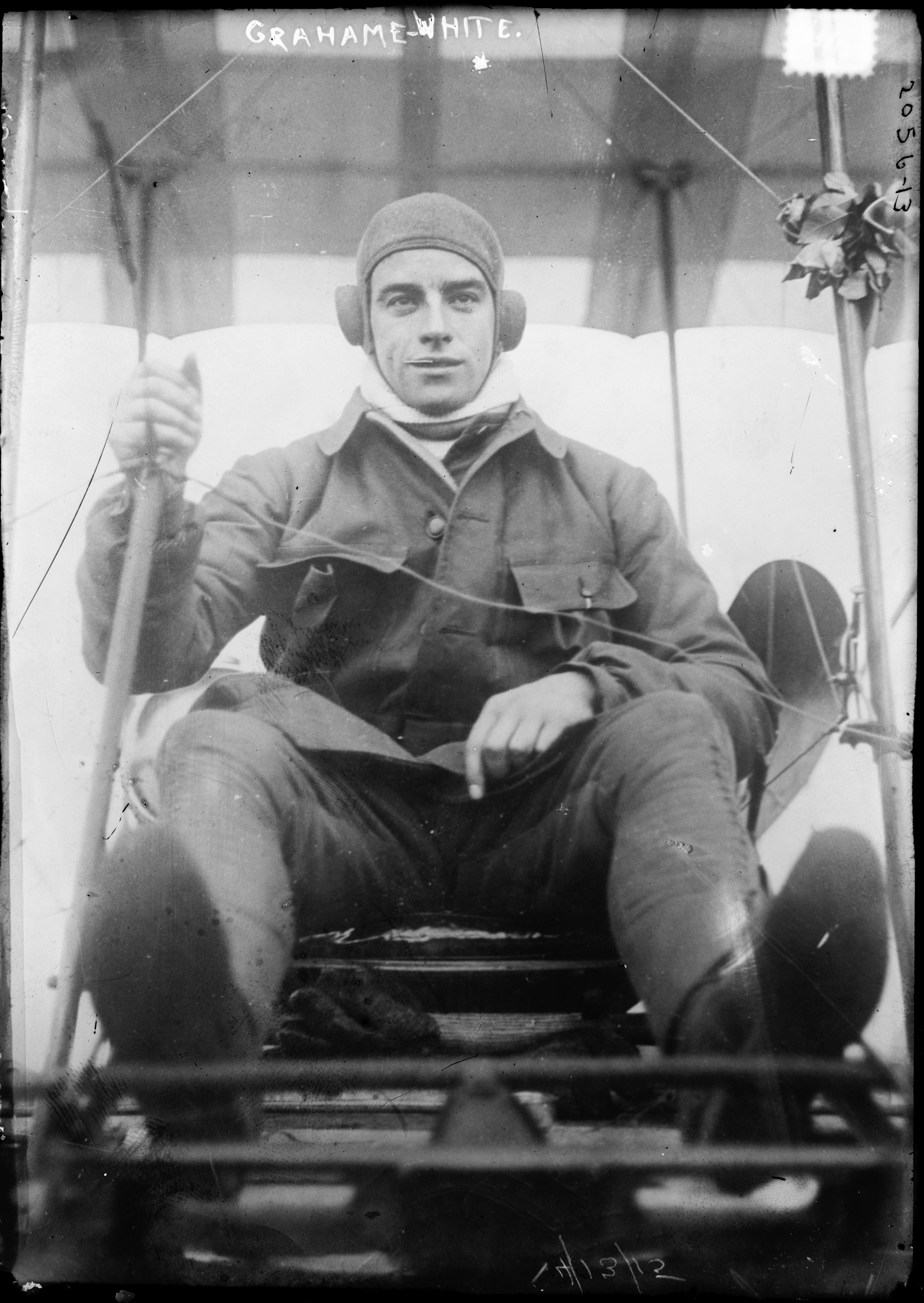 Medium: 1 negative : glass ; 5 x 7 in. or smaller. Reproduction Number: LC-DIG-ggbain-08355 (digital file from original neg.) Rights Advisory: No known restrictions on publication. Call Number: LC-B2- 2056-13 [P&P] Repository: Library of Congress Prints and Photographs Division Washington, D.C. 20540 USA